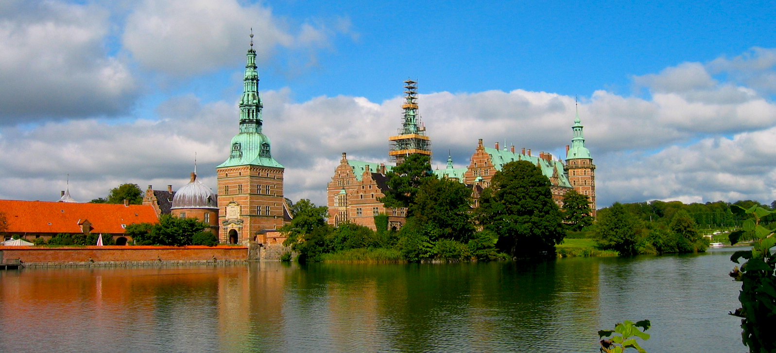 Hillerød, Frederiksborg Castle